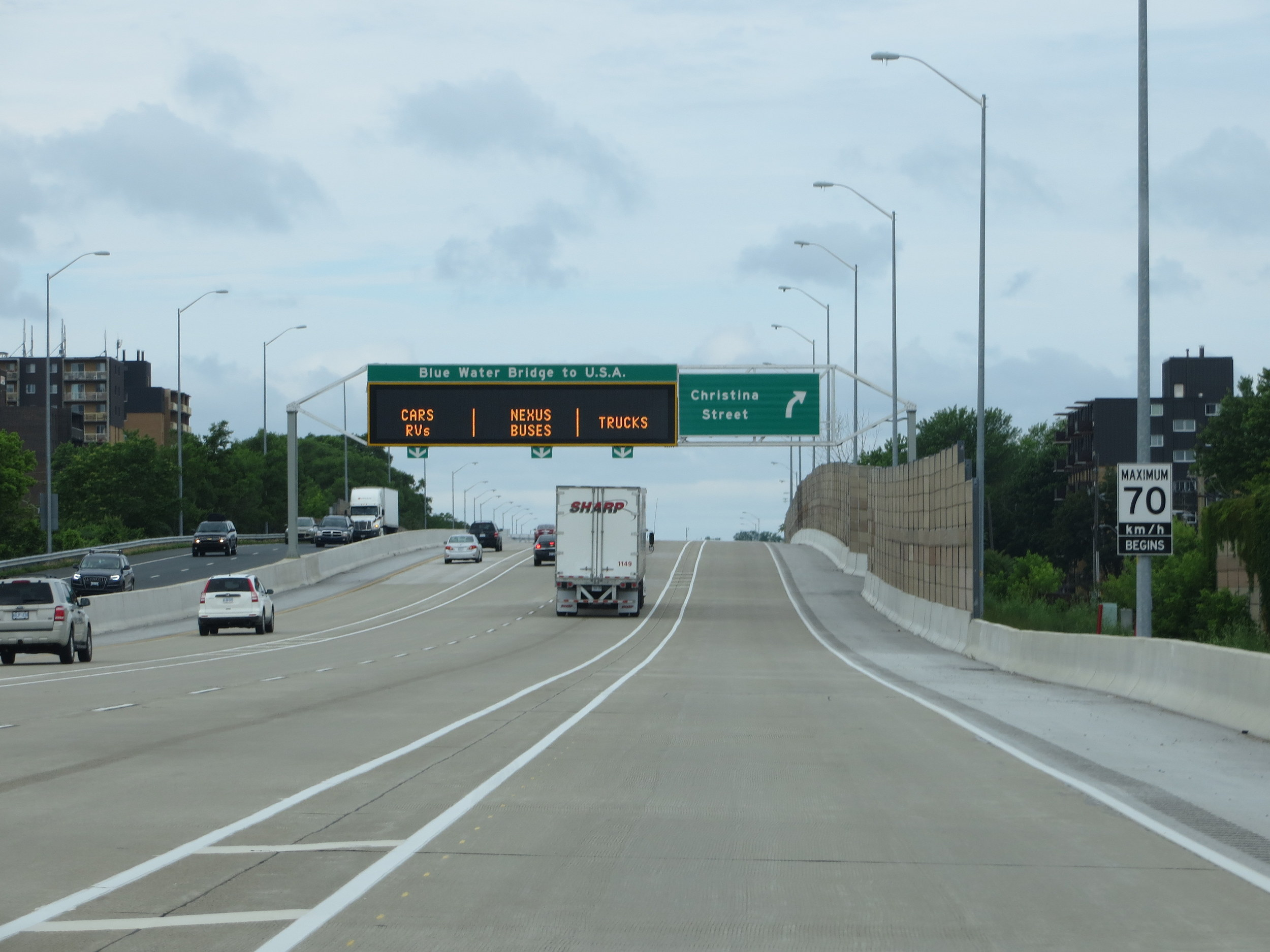 Photo of Highway 402 in Sarnia Ontario approaching Blue Water Bridge